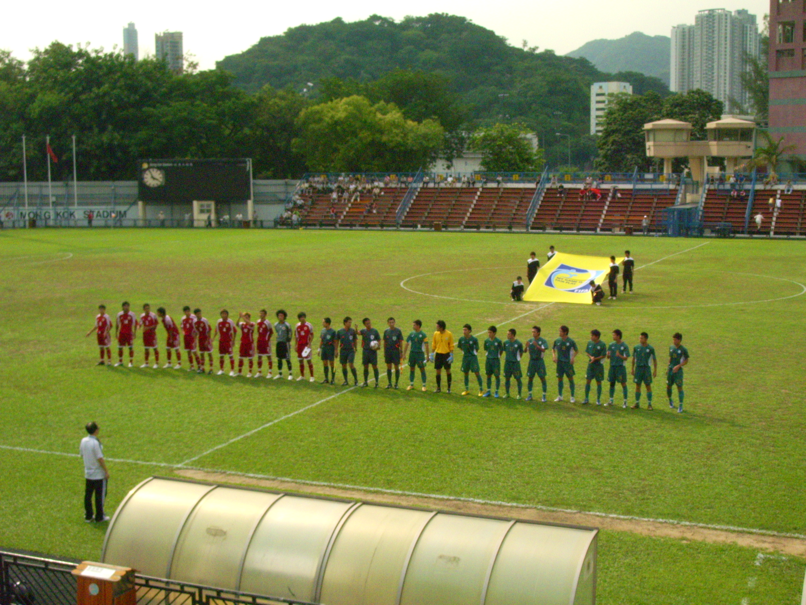 2009-06-20 Hong Kong Macau Interpot